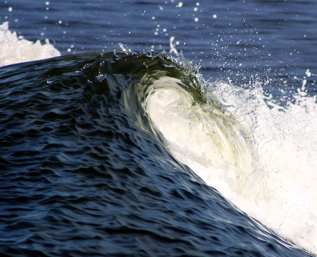 The wake after the ferry to Fanø, Denmark